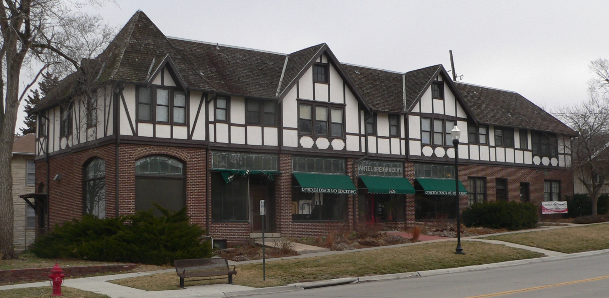 Antelope Grocery, located at 2406 J Street in Lincoln, Nebraska; seen from the southwest.